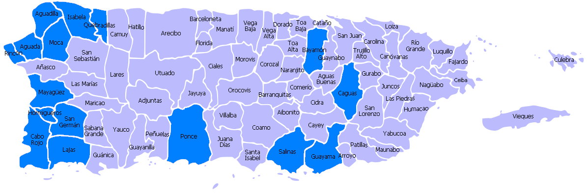 Map showing host cities of 2010 Central American and Caribbean Games. Based on File:Municipios pr.svg.